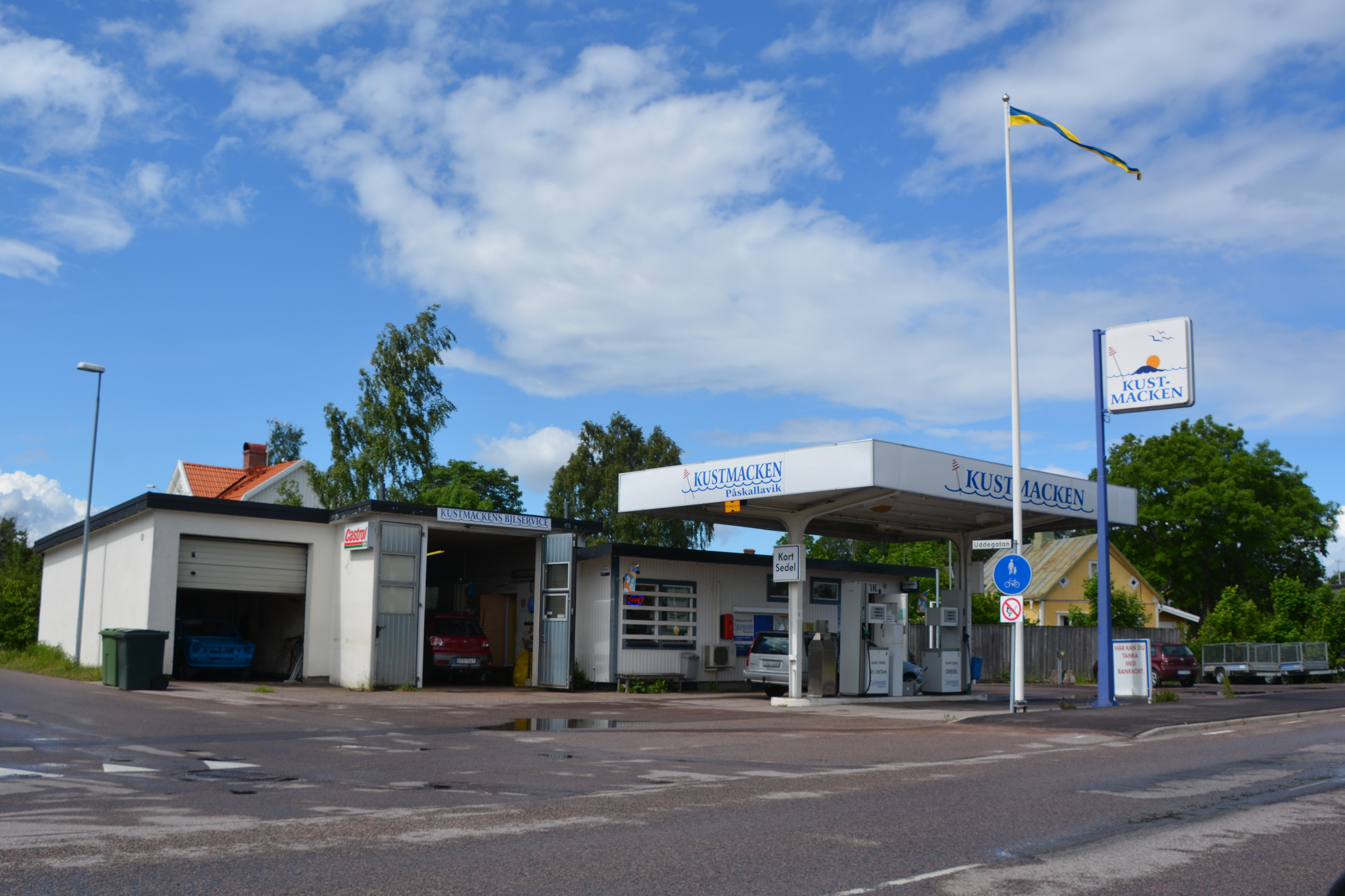 Kustmacken i Påskallavik